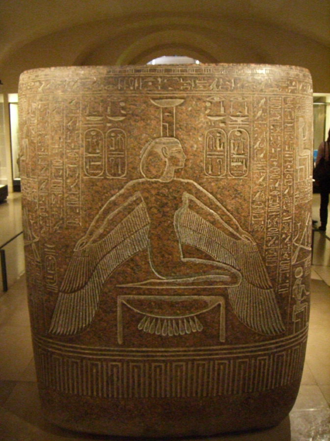 Red granite sarcophagus of Ramses III. Goddess Nephthys seated on the Egyptian language hieroglyph for gold.